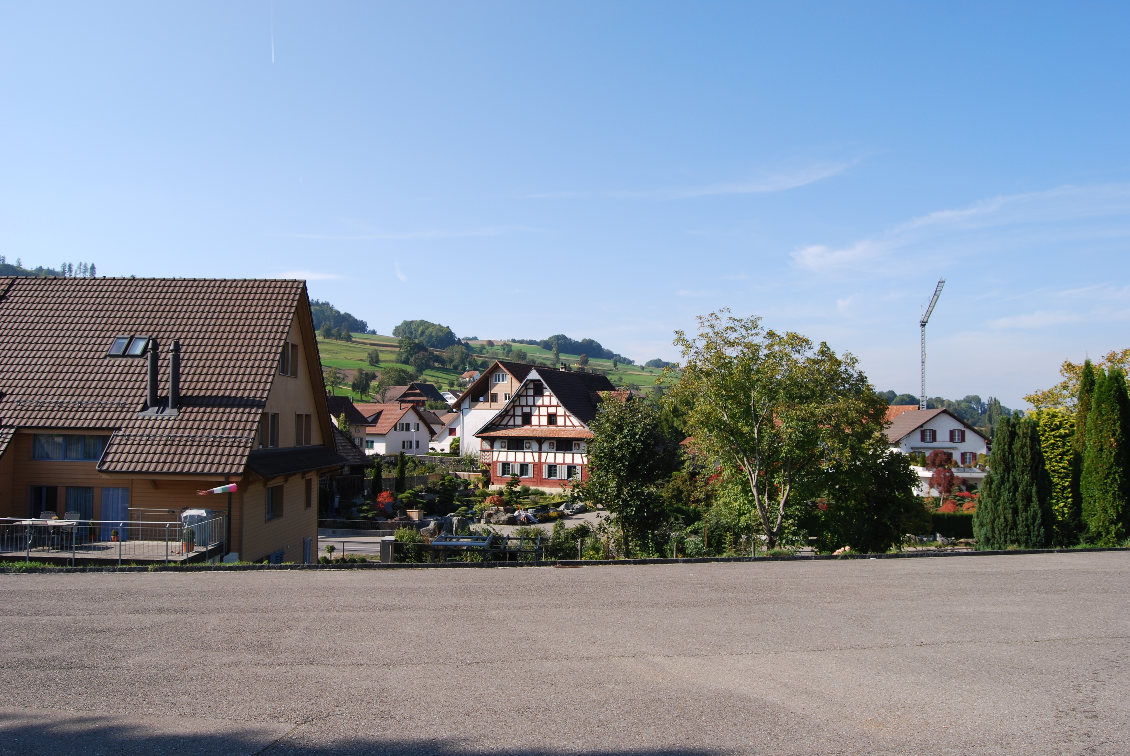 Boswil, canton of Aargau, SwitzerlandEsperanto: Boswil, Kantono Argovio, Svislando